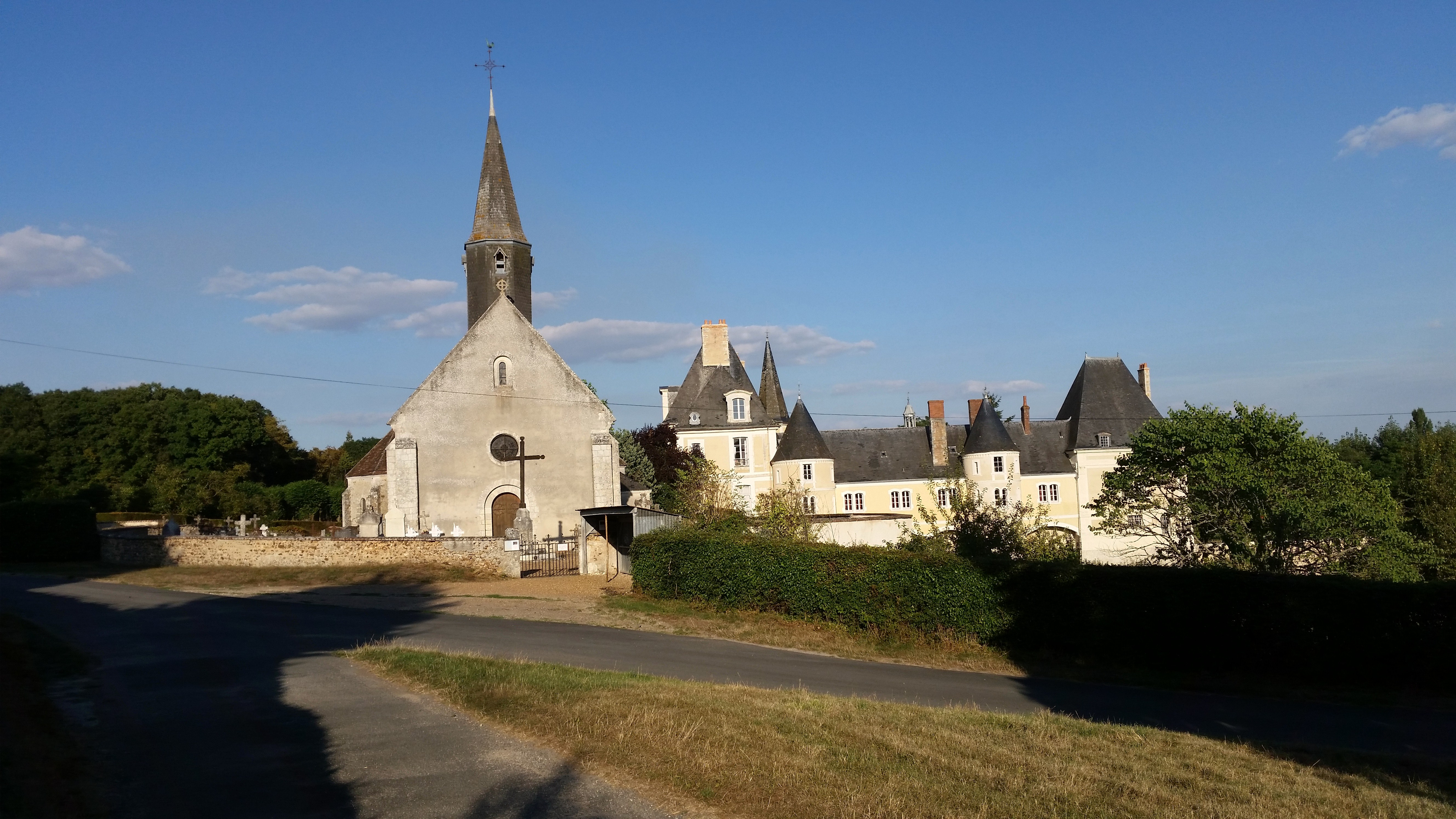 The church and the Château de Moléans (Eure-et-Loir, France).